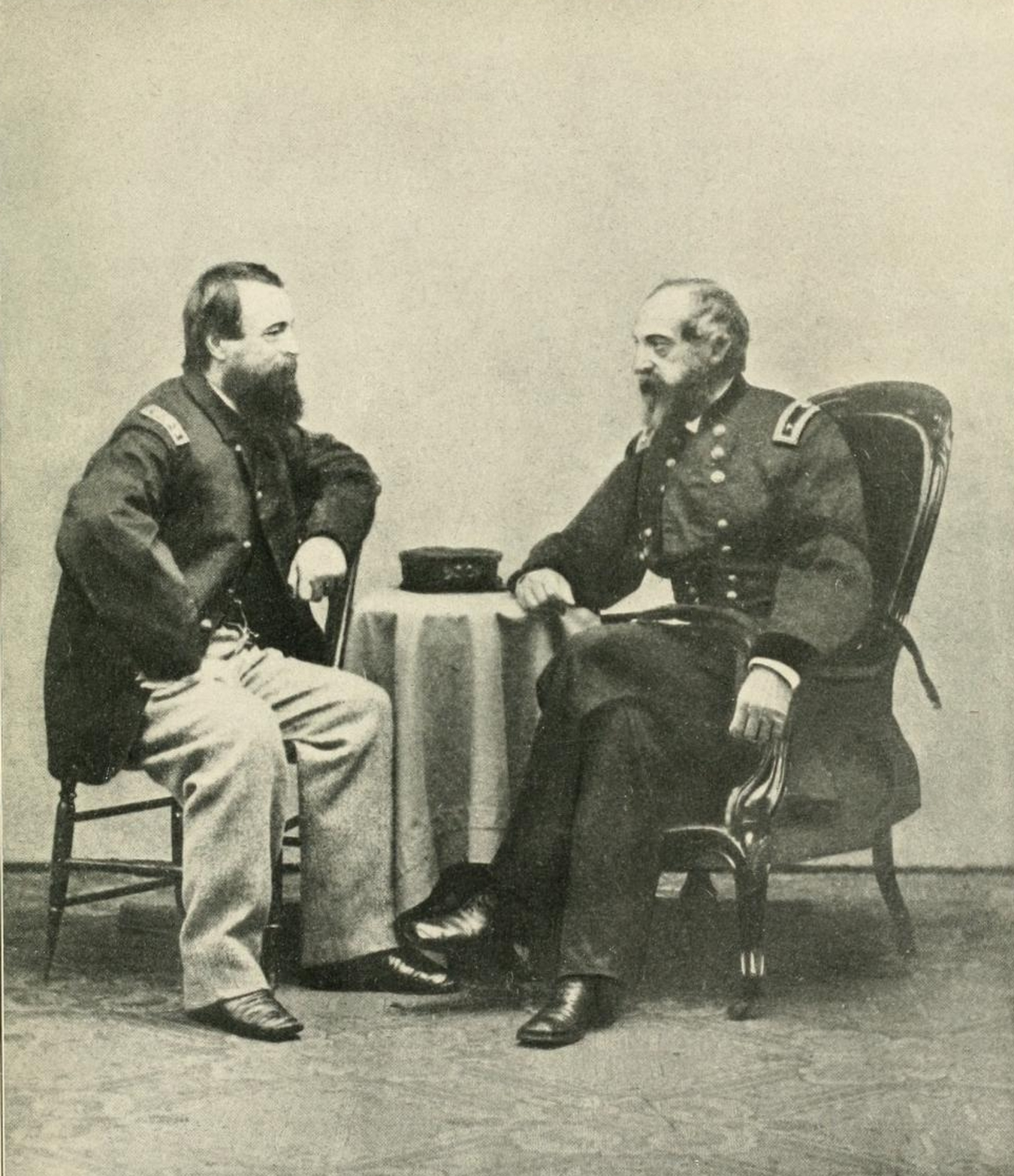 Admiral David Dixon Porter and General George Meade